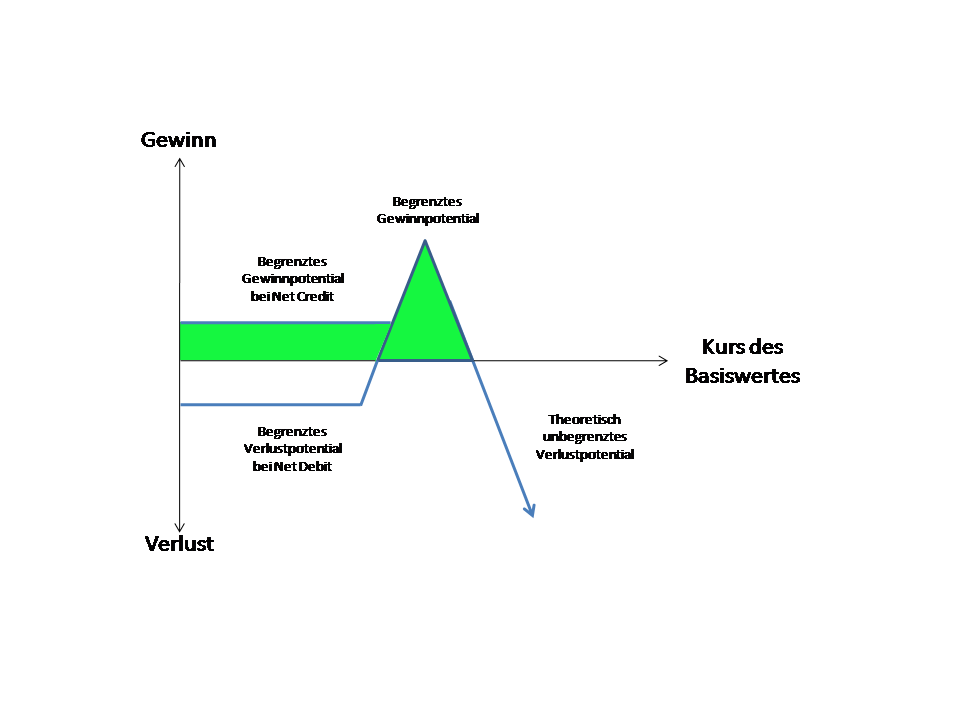 Ratio Call Spread